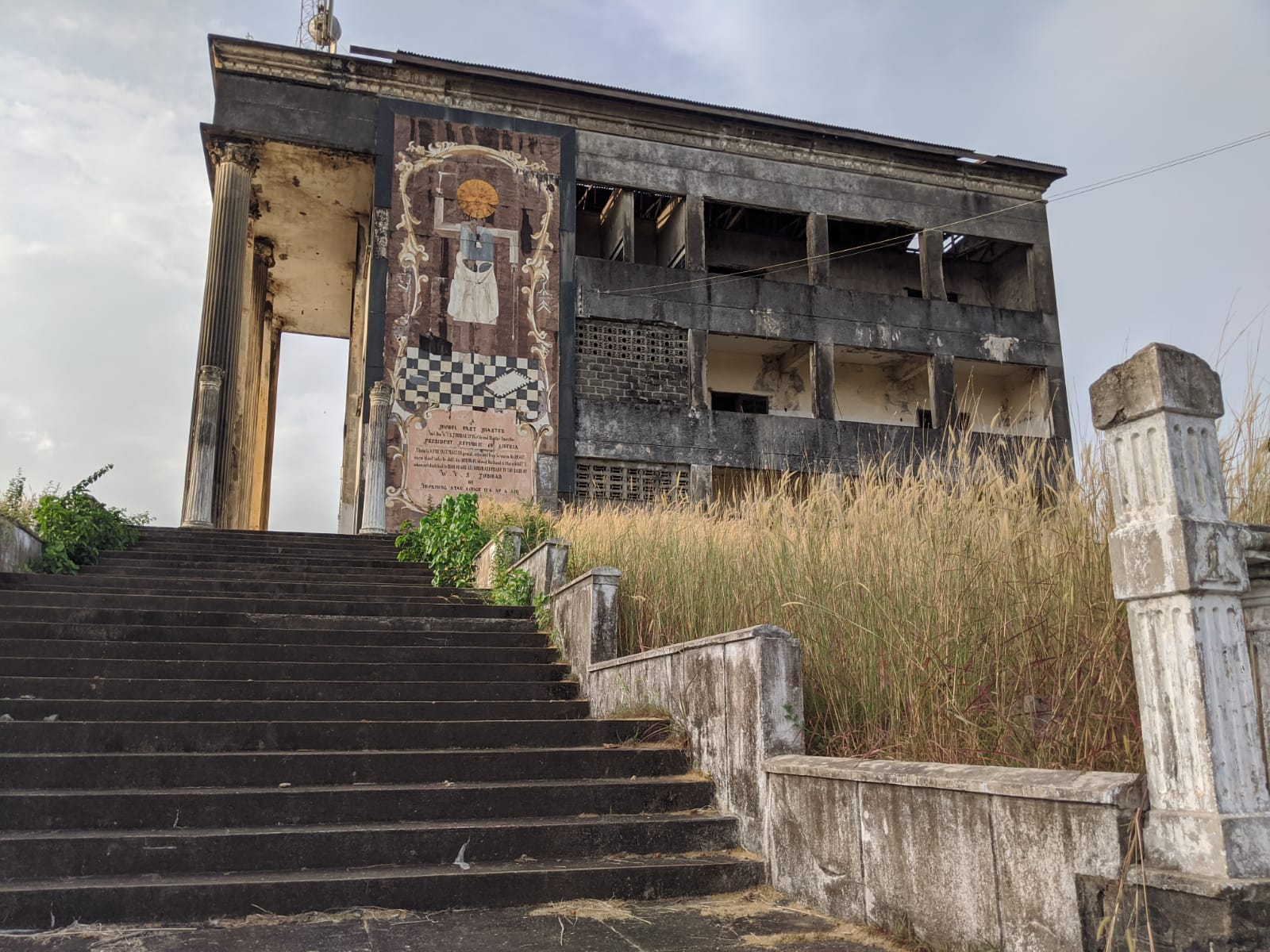 This building is Morning Star Masonic Lodge, built by President William Tubman.